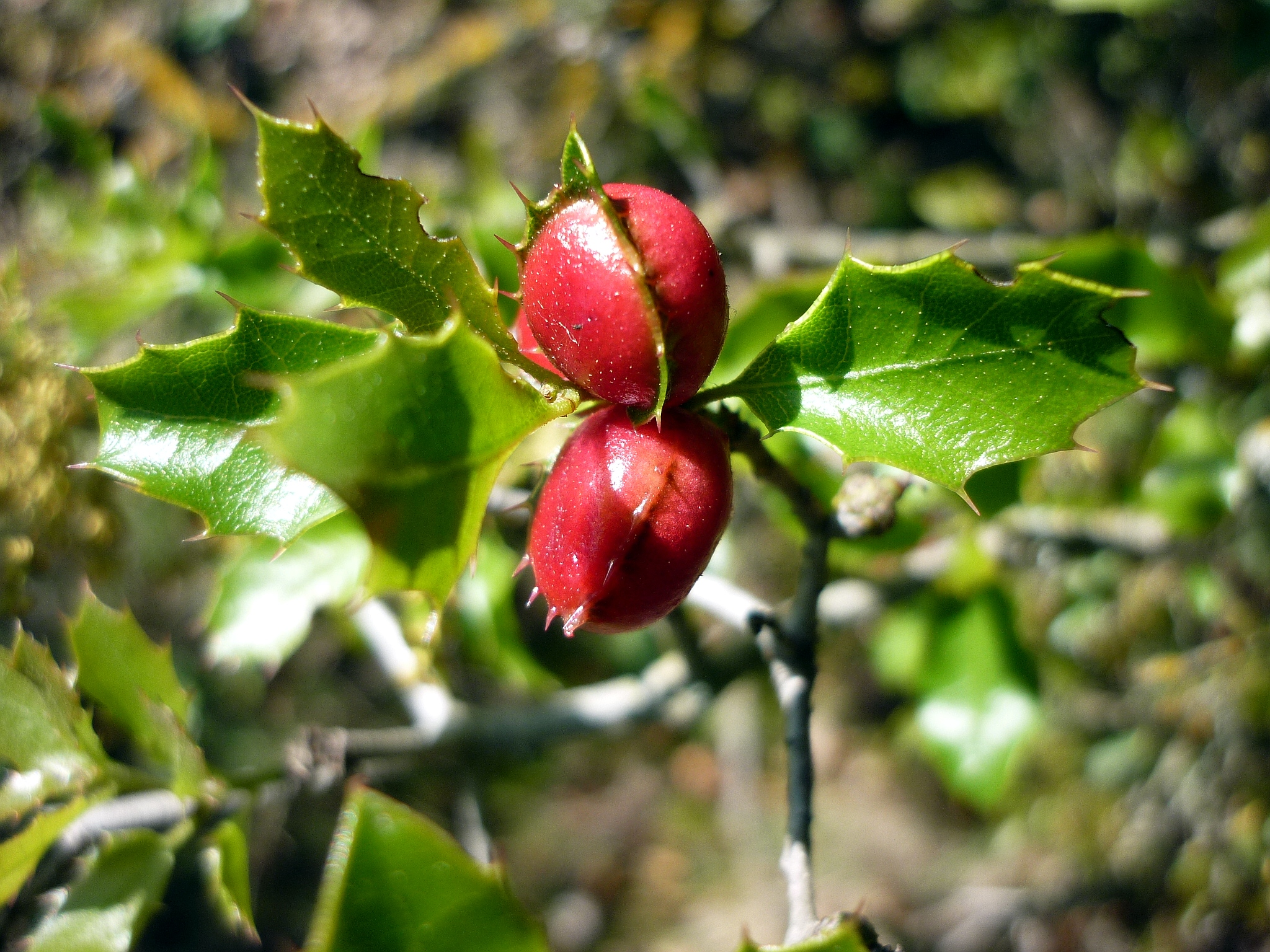 Quercus coccifera. In Torà (Segarra-Catalunya). To 590 m. altitude